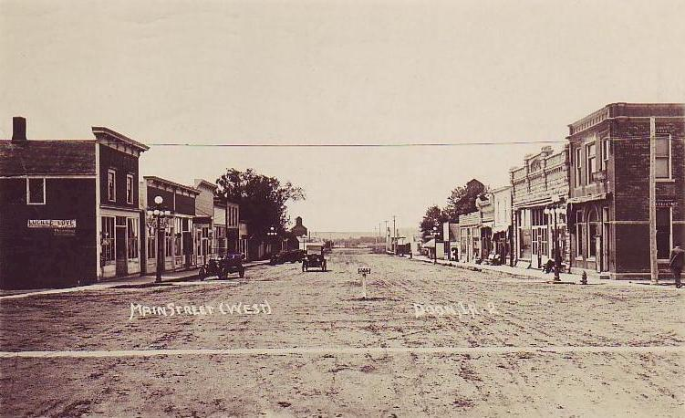 Main Street (looking west), Doon, Iowa; from a postmarked 1922 postcard.